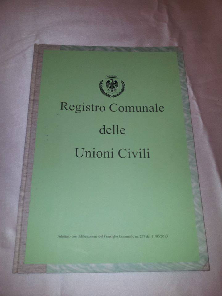 Palermo: public register for civil partnership